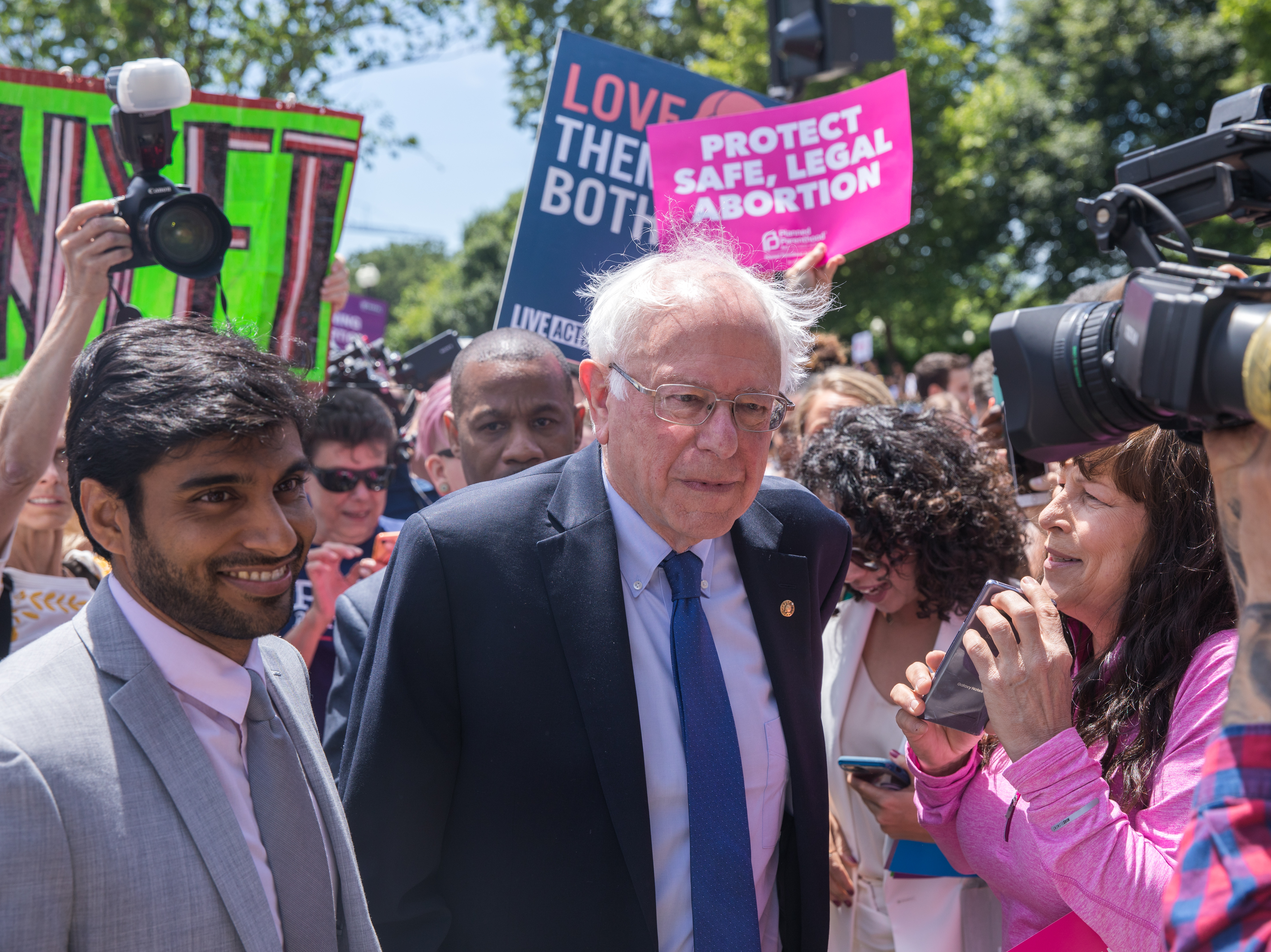 U.S. Senator Bernie Sanders at the Stop the Bans rally at the U.S. Supreme Court in Washington D.C.